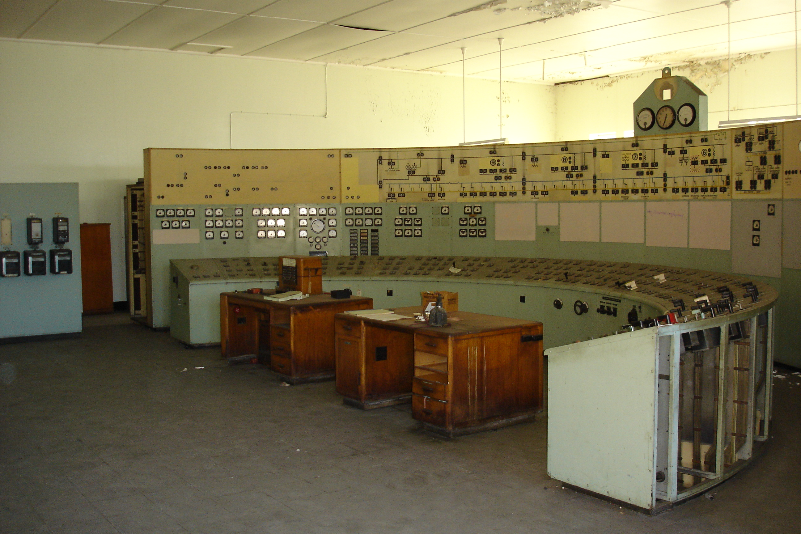 White Bay Power Station, Rozelle, New South Wales. Control Room.